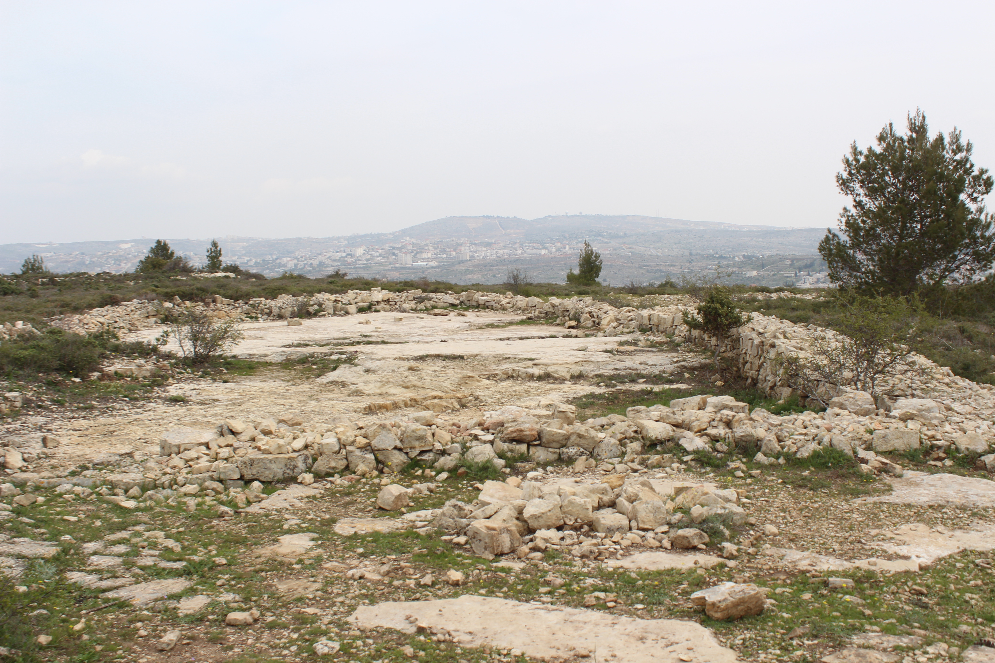 Ruins of Jeroboam's Temple in Bet El, Beit El, occupied Palestine This image was taken as part of the Elef Millim project trip to "Jacob's dream", in Bethel which was held on Friday, 17th March 2017. To view all images uploaded as part of the Elef Millim Project